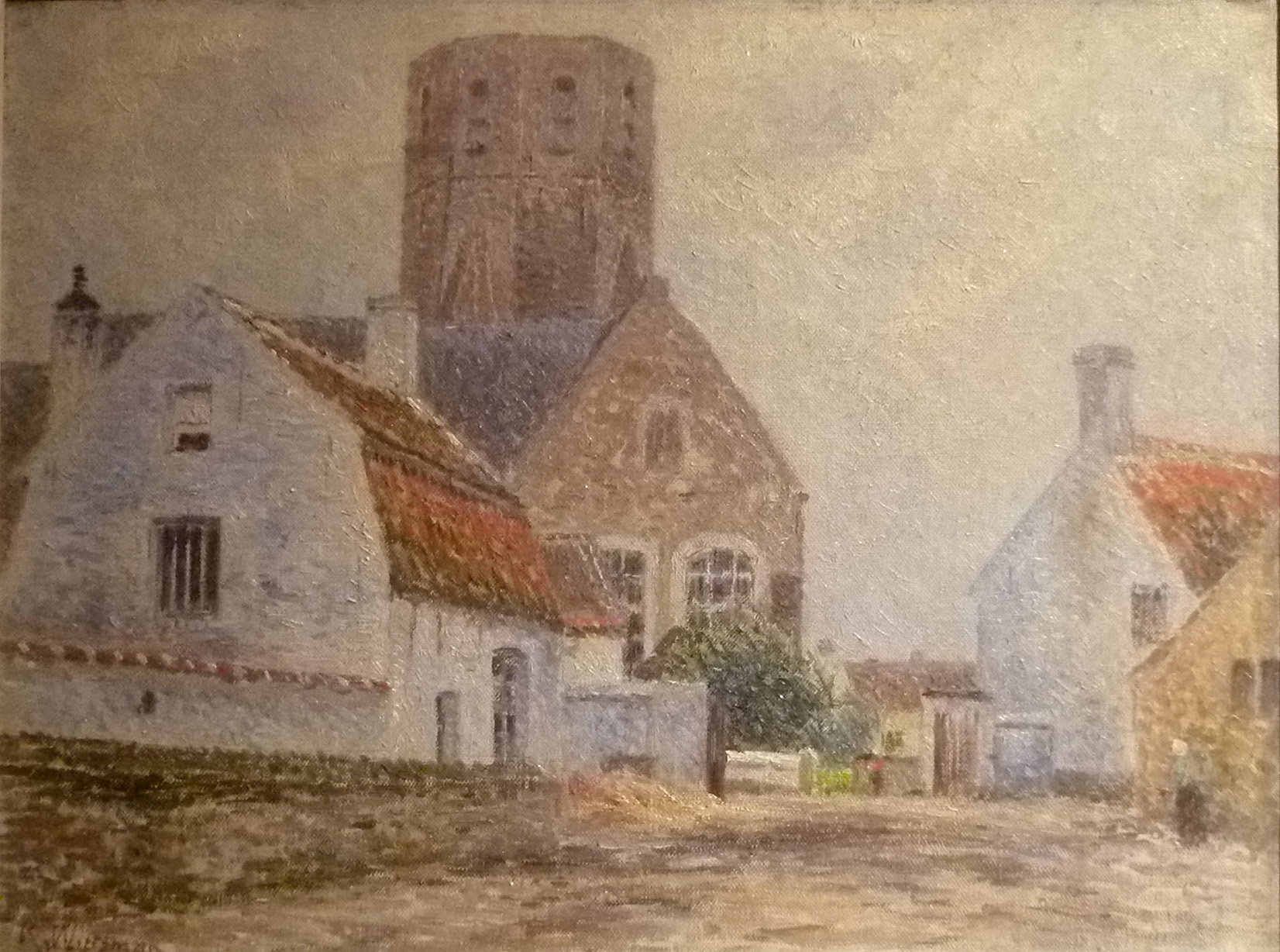 "Saint Nicholaschurch in Westkapelle", oil on canvas (35 x 47 cm) by the Belgian painter Rodolphe Wytsman; Gemeentelijk patrimonium Knokke-Heist